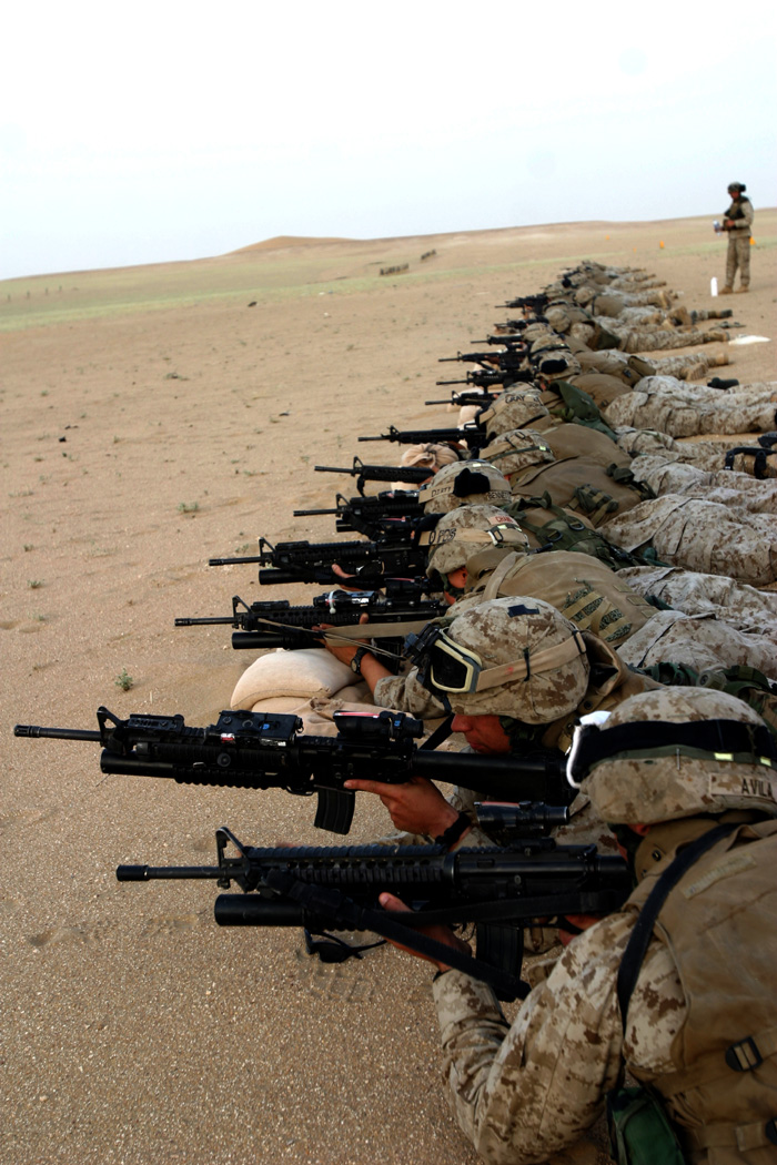 Udairi Range, Kuwait (May 20, 2005) - Marines from Echo Company, Battalion Landing Team 2nd Bn., 8th Marines, 26th Marine Expeditionary Unit (Special Operations Capable), fire a "battle sight zero" range at Udairi Range, Kuwait, during routine proficiency training. U.S. Marine Corps photo by Sgt. Roman Yurek (RELEASED)